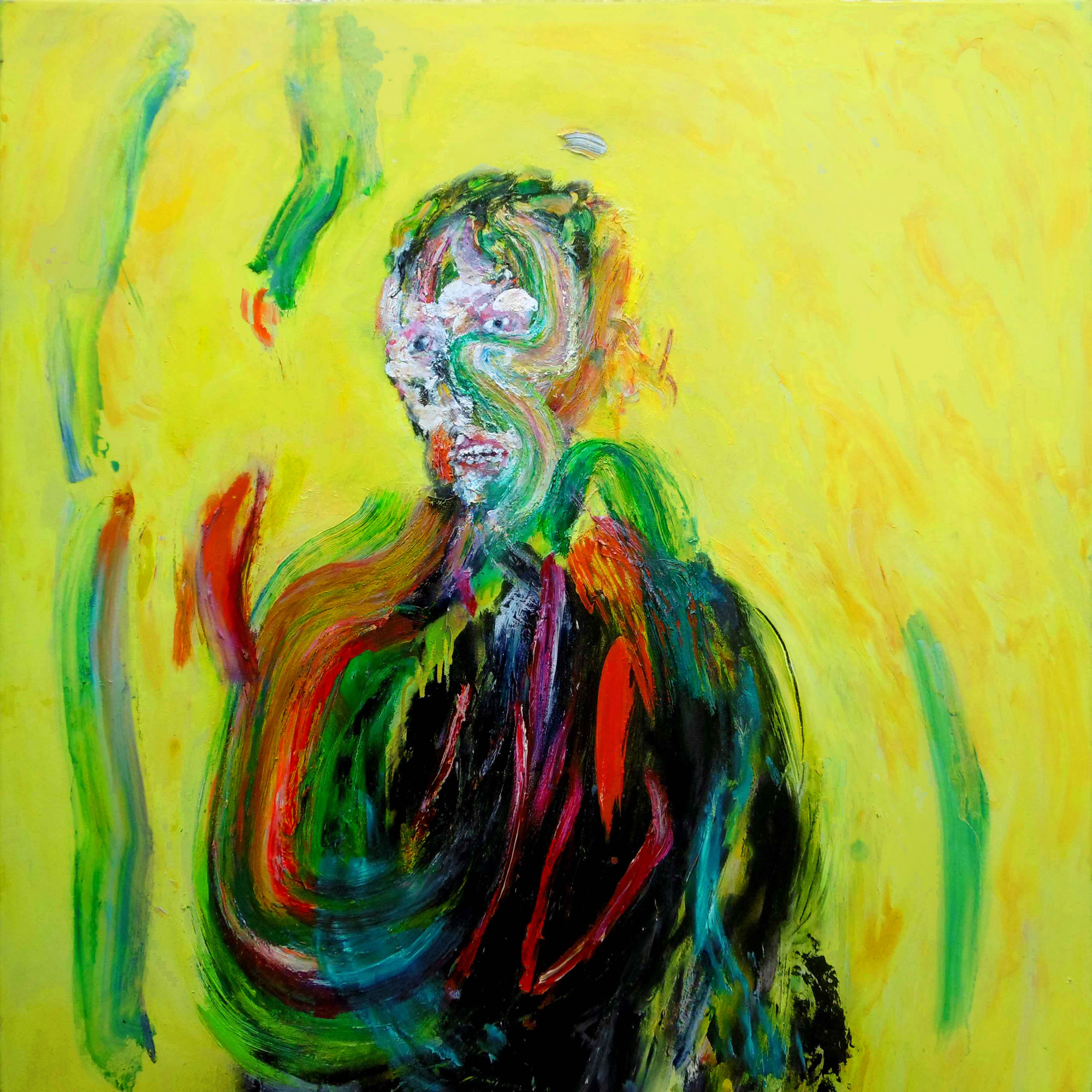 Painting by Andrew Litten. Oil on canvas 2016. A stark portrayal of drug dependency, whether prescribed or recreational, comes from Andrew Litten with Sudden Involuntary Chemical Withdrawal. This oil on canvas work with its bright yellow background deals with an important social issue that affects many people. “I wanted the representation of withdrawal to appear as a threatening physical experience of dislocation induced by the altered brain chemistry,” he has written. “The face is snarling with a self-awareness of the ridiculousness of withdrawal syndrome.”